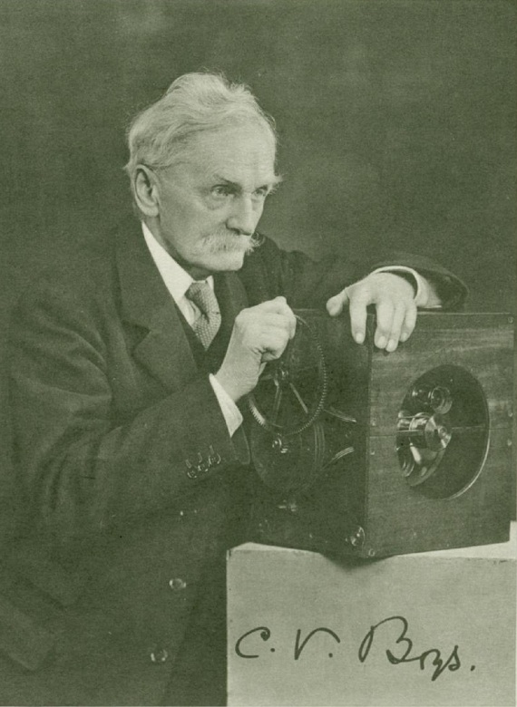 Portrait of English physicist Sir Charles Vernon Boys, FRS